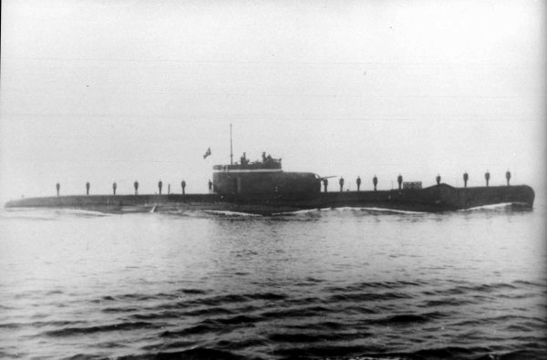 HMS P611, Turkey acquired in May 1942 and named Oruç Reis